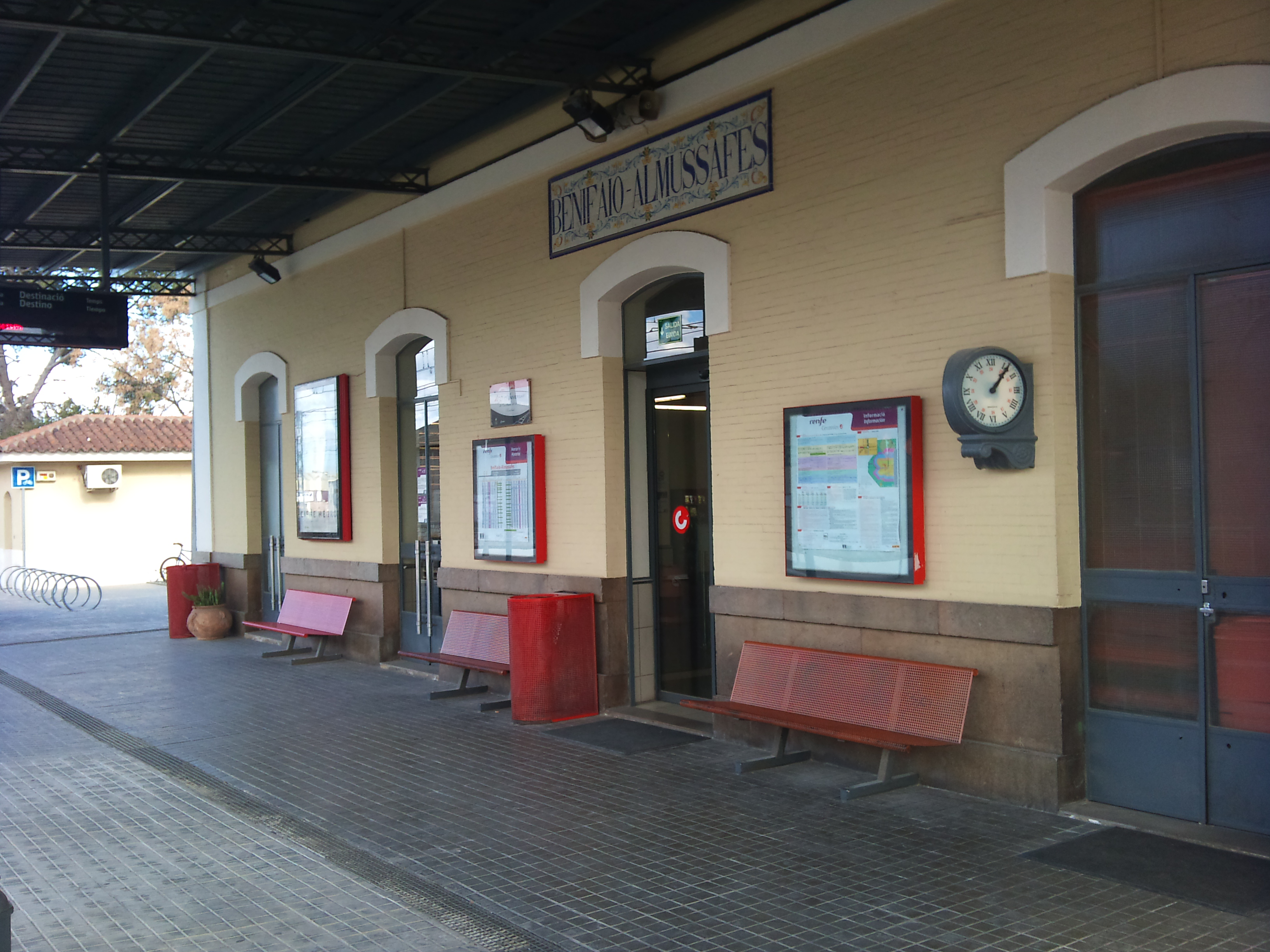 Panoramic view of the "Benifaió-Almussafes" station, in Benifaió, Ribera Alta, Land of Valencia.